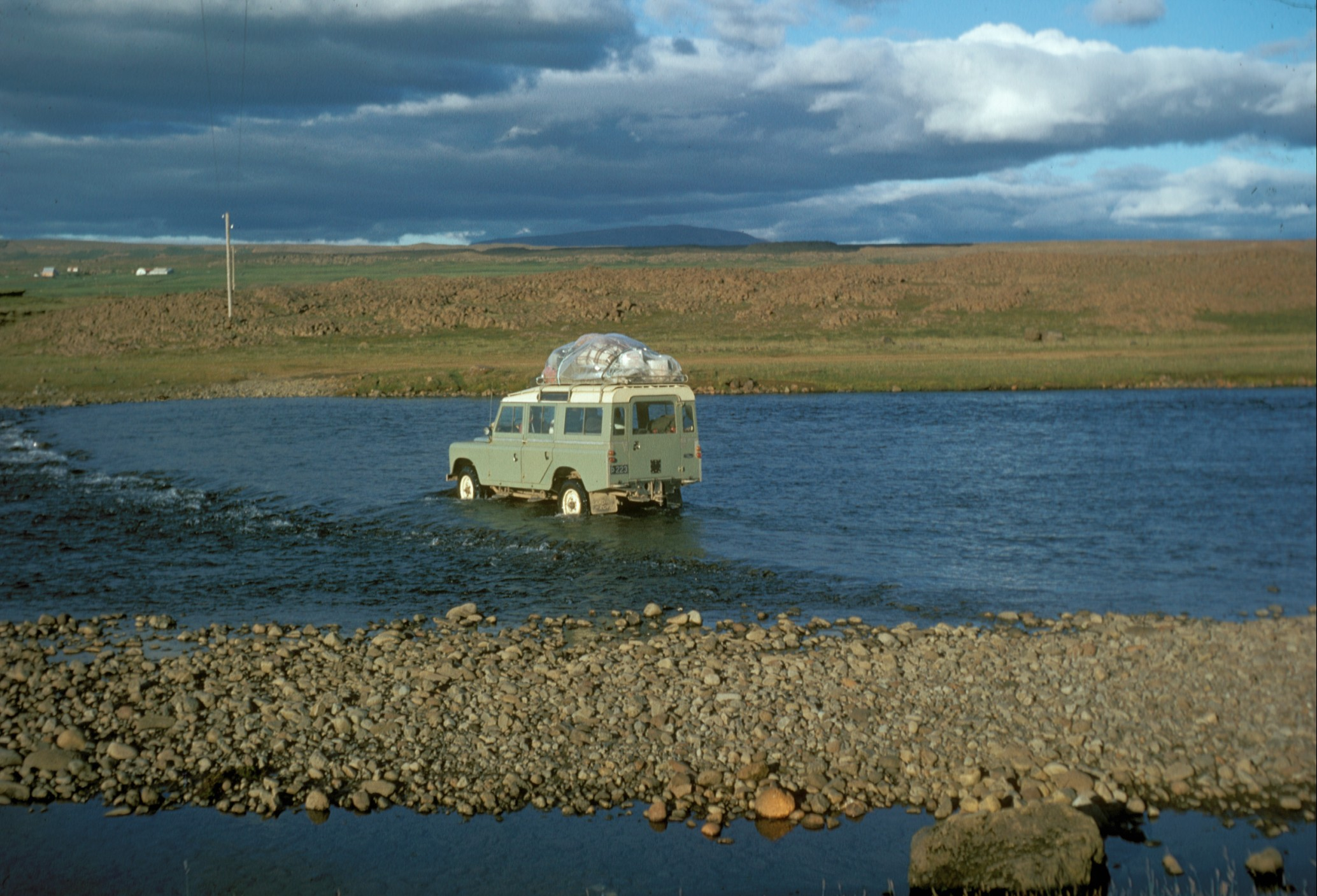 Crossing a river in northern Iceland on 28 or 30 Jul 1972. Picture taken and uploaded by Roger McLassus.